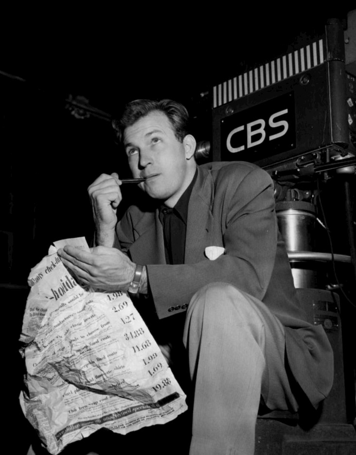 Photo of humorist Herb Shriner from his 1949 television program.